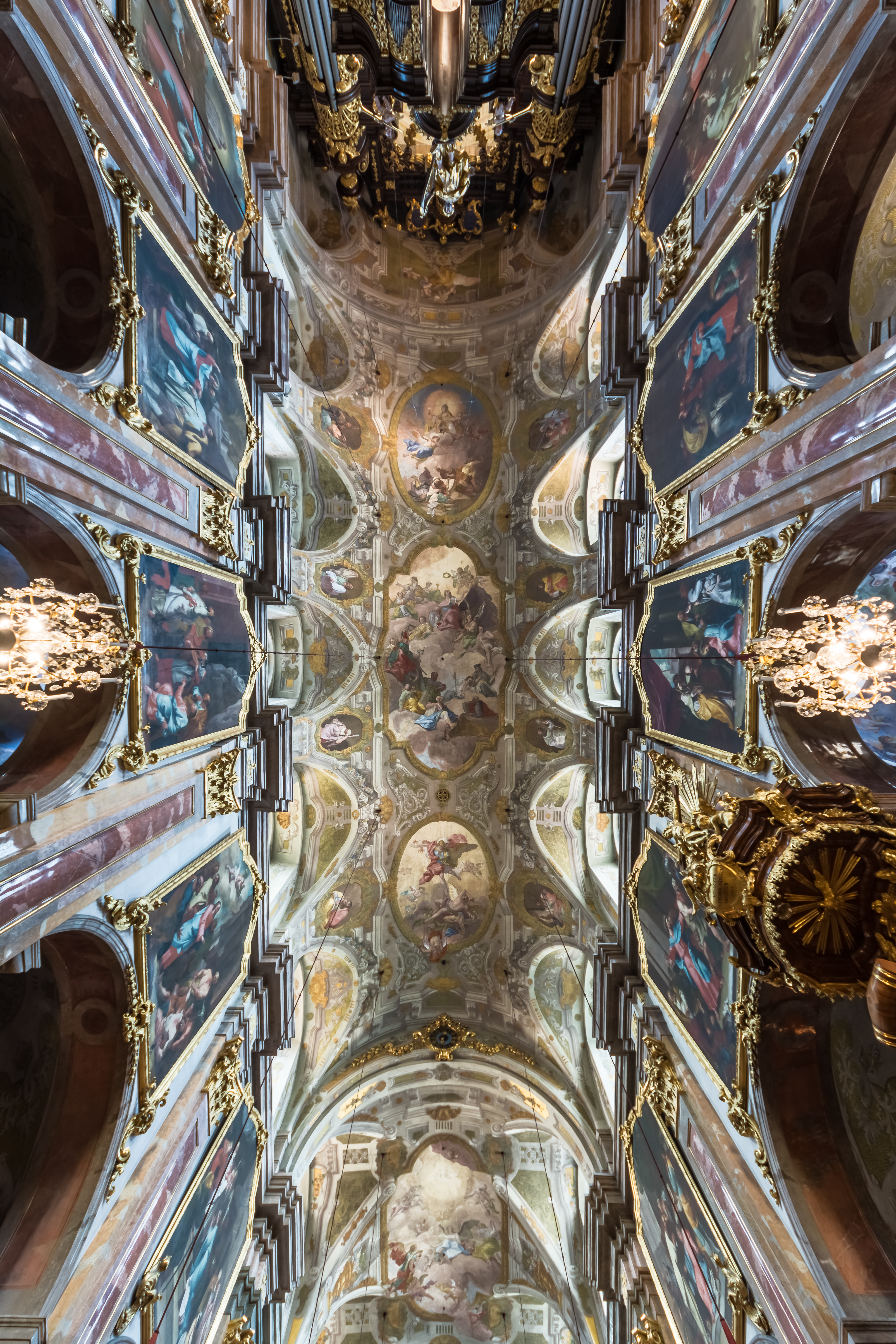 Ceiling frescos in St. Pölten Cathedral (Lower Austria) by Friedrich Gedon (1740-43)